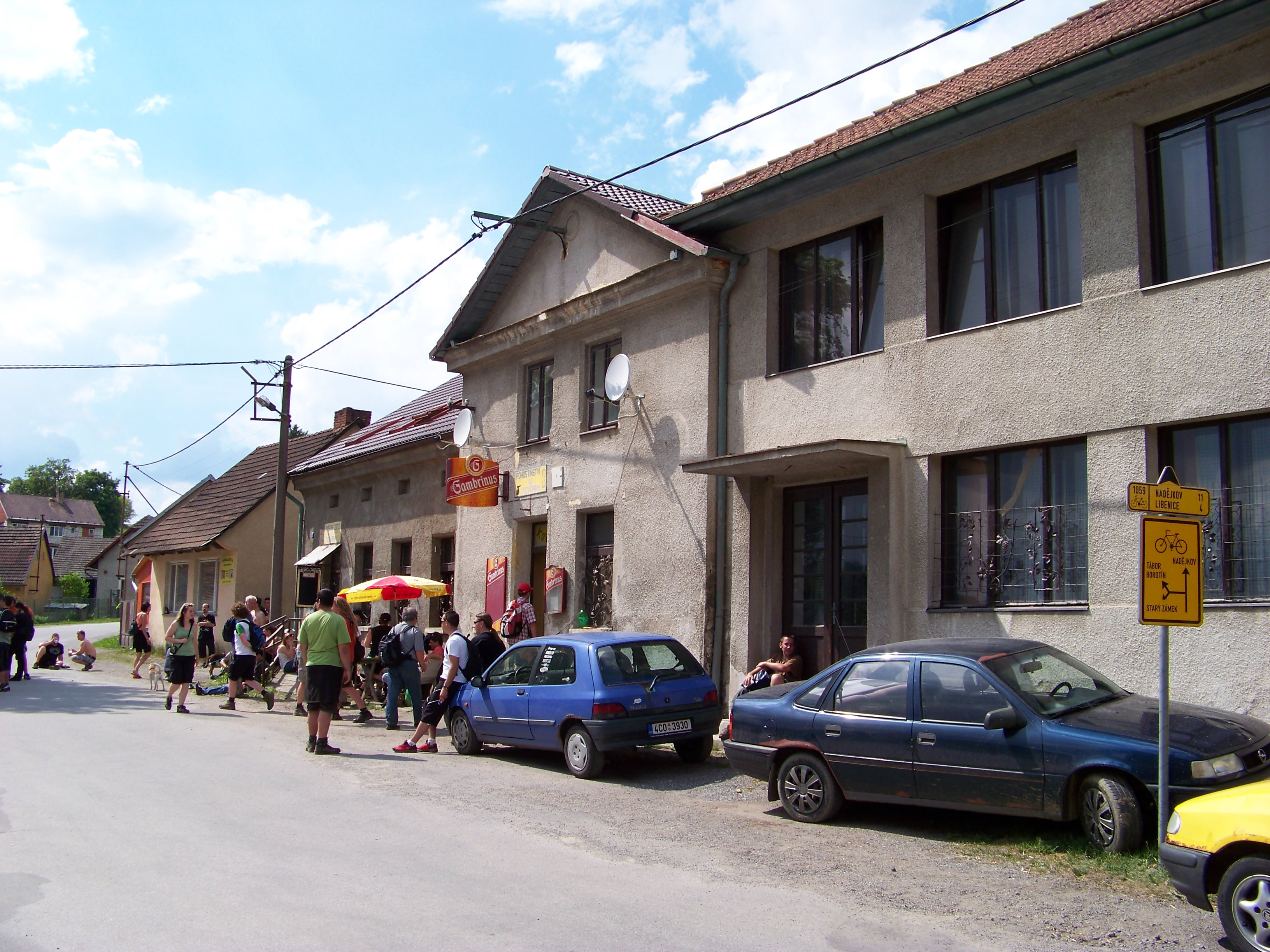 Střezimíř, Benešov District, Central Bohemian Region, the Czech Republic. U Kovárny Restaurant.